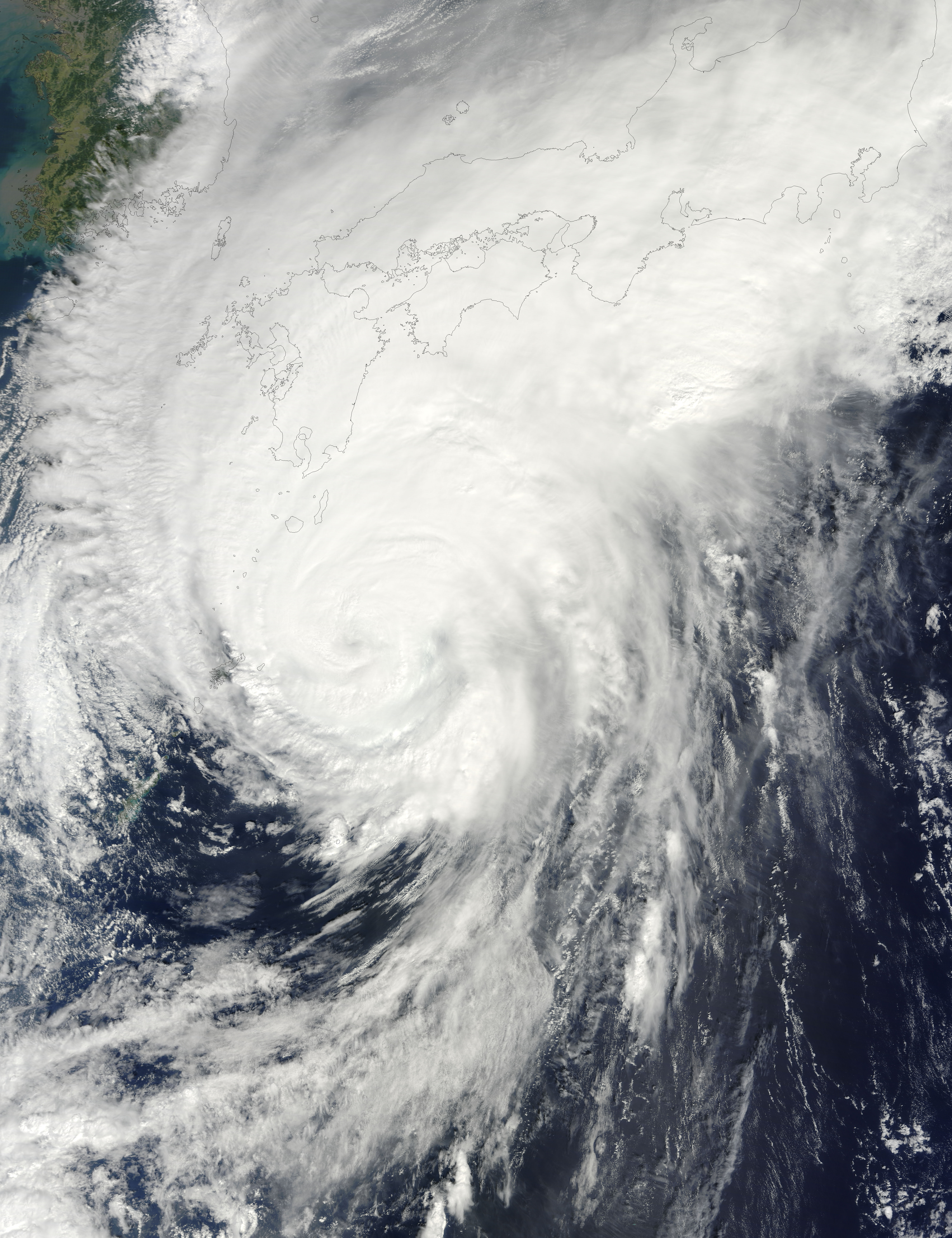 Typhoon Melor was approaching the southernmost islands of Japan when this natural-color image was captured by the Moderate Resolution Imaging Spectroradiometer (MODIS) on NASA’s Terra satellite on October 7, 2009. The eye of the storm was completely clouded, and the iconic bands of spiraling clouds that characterize strong typhoons appeared to be blending into a more disorganized deck of clouds and thunderstorms, especially in the northern half of the storm. The 3:00 p.m. (Tokyo time) bulletin on Melor from the Joint Typhoon Warning Center warned of sustained winds of 85 knots (98 mph) and gusts up to 105 knots (121 mph) and waves up to 33 feet (10 meters).